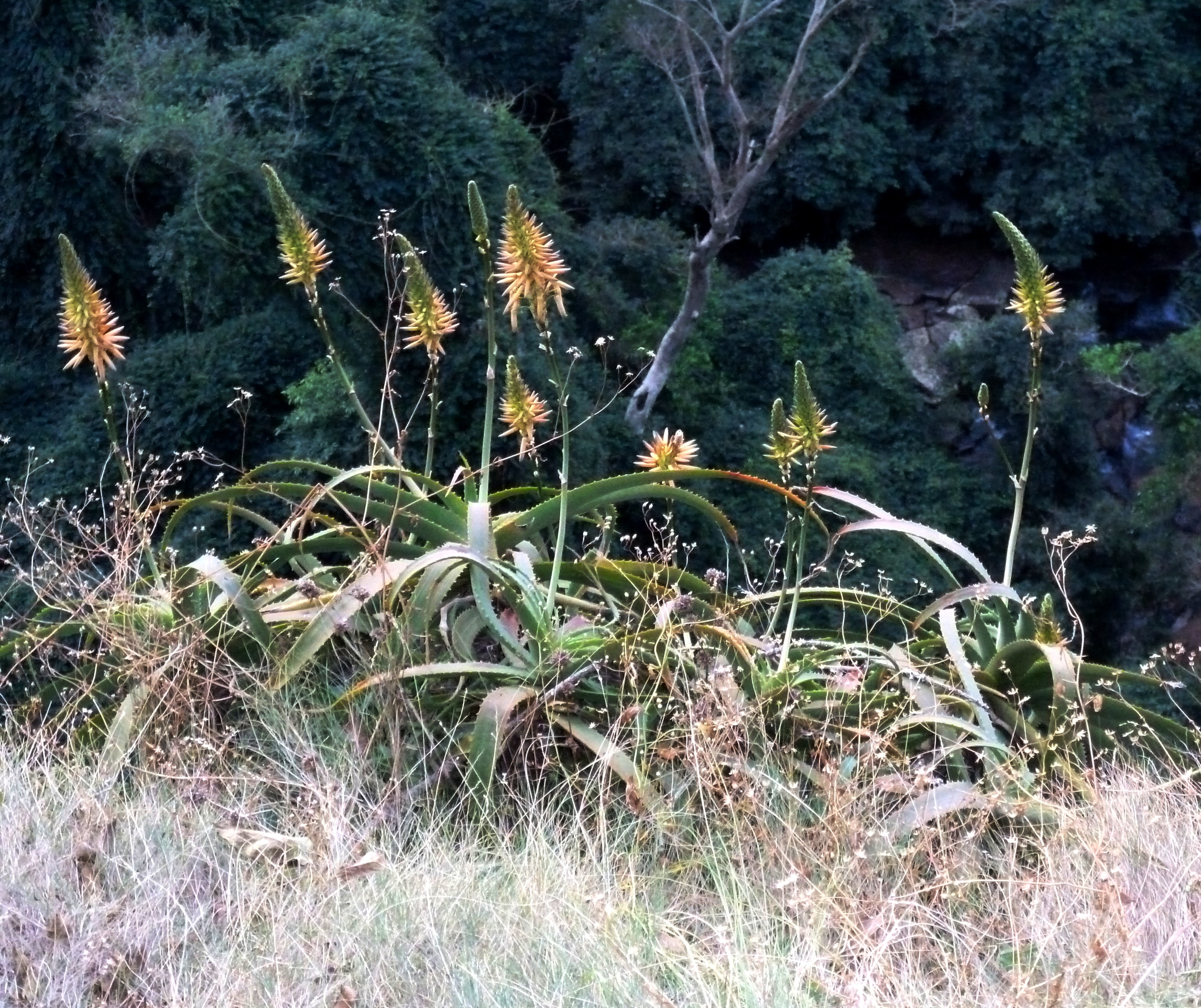 French aloes on a steep incline in Krantzkloof Nature Reserve